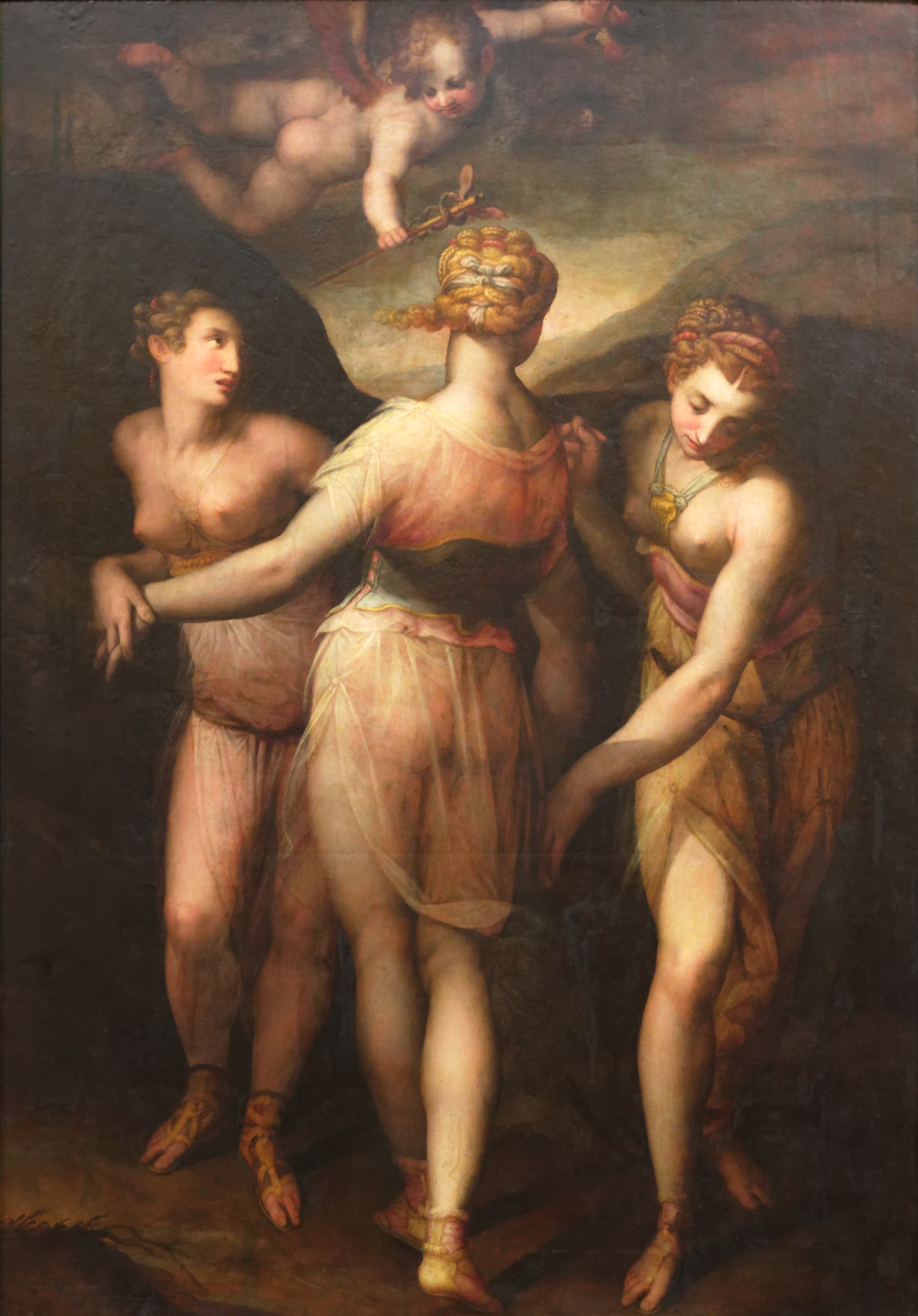 The Three Graces